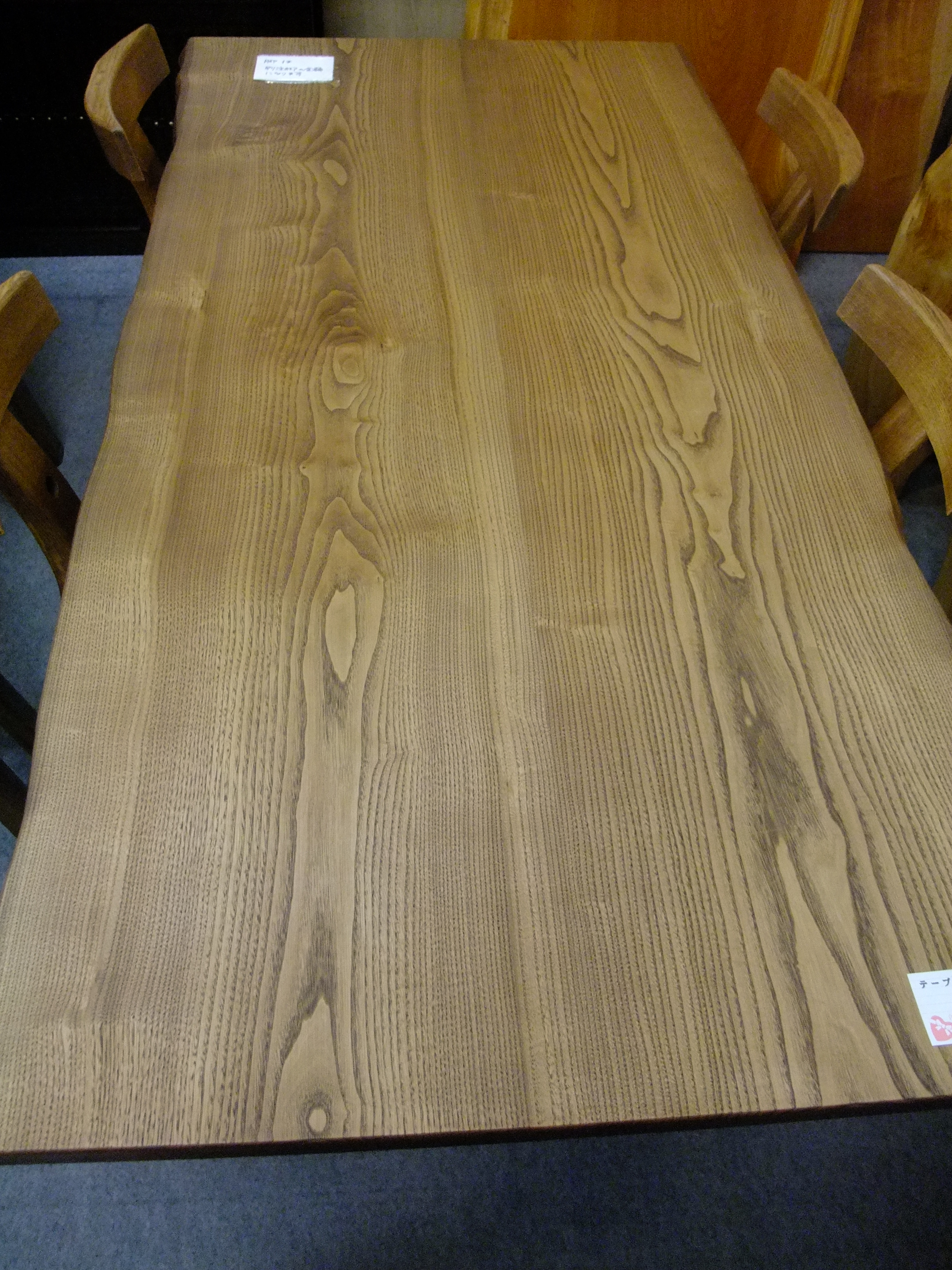 Castanea crenata - Japanese Chestnut table